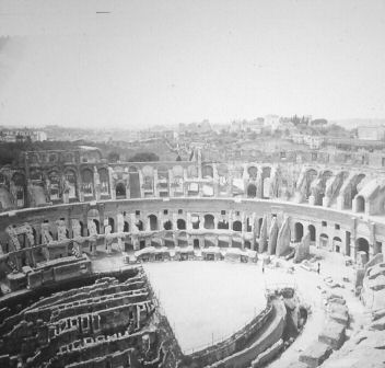 Alexander Lamont Henderson (1838-1907) - Rome, the Colosseum, inside. (1880/1905). Magic lantern slide.